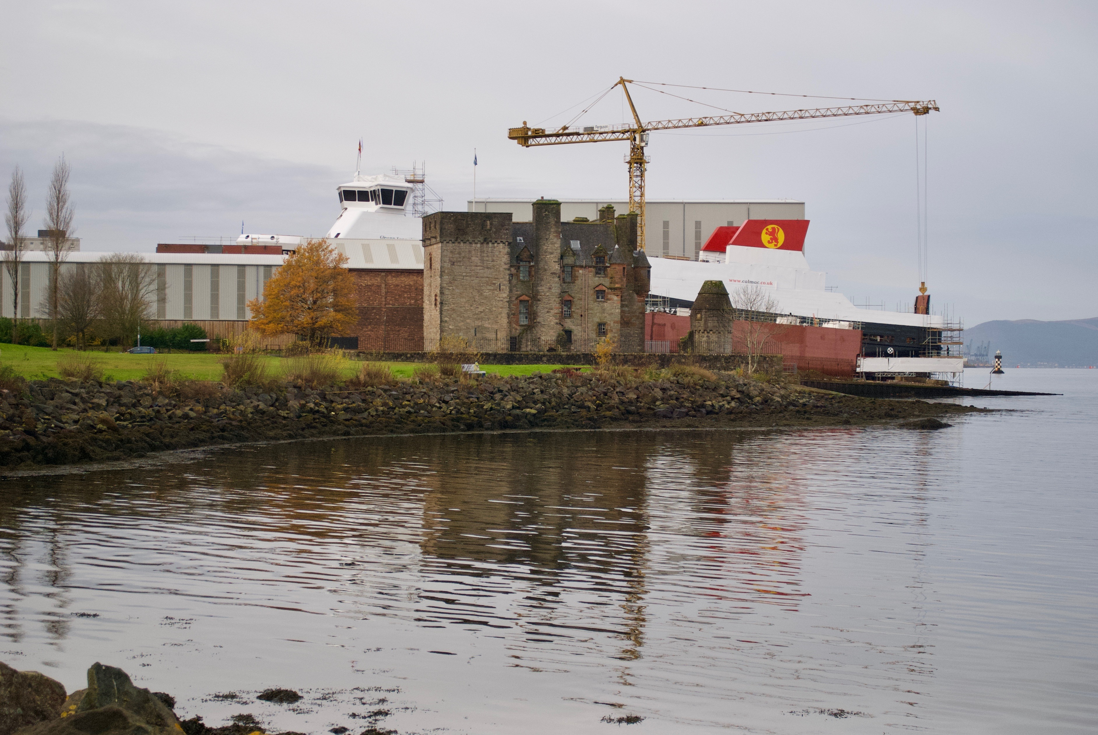 Newark Castle, Port Glasgow, with MV Glen Sannox on the slipway about to be launched at Ferguson Marine Engineering.